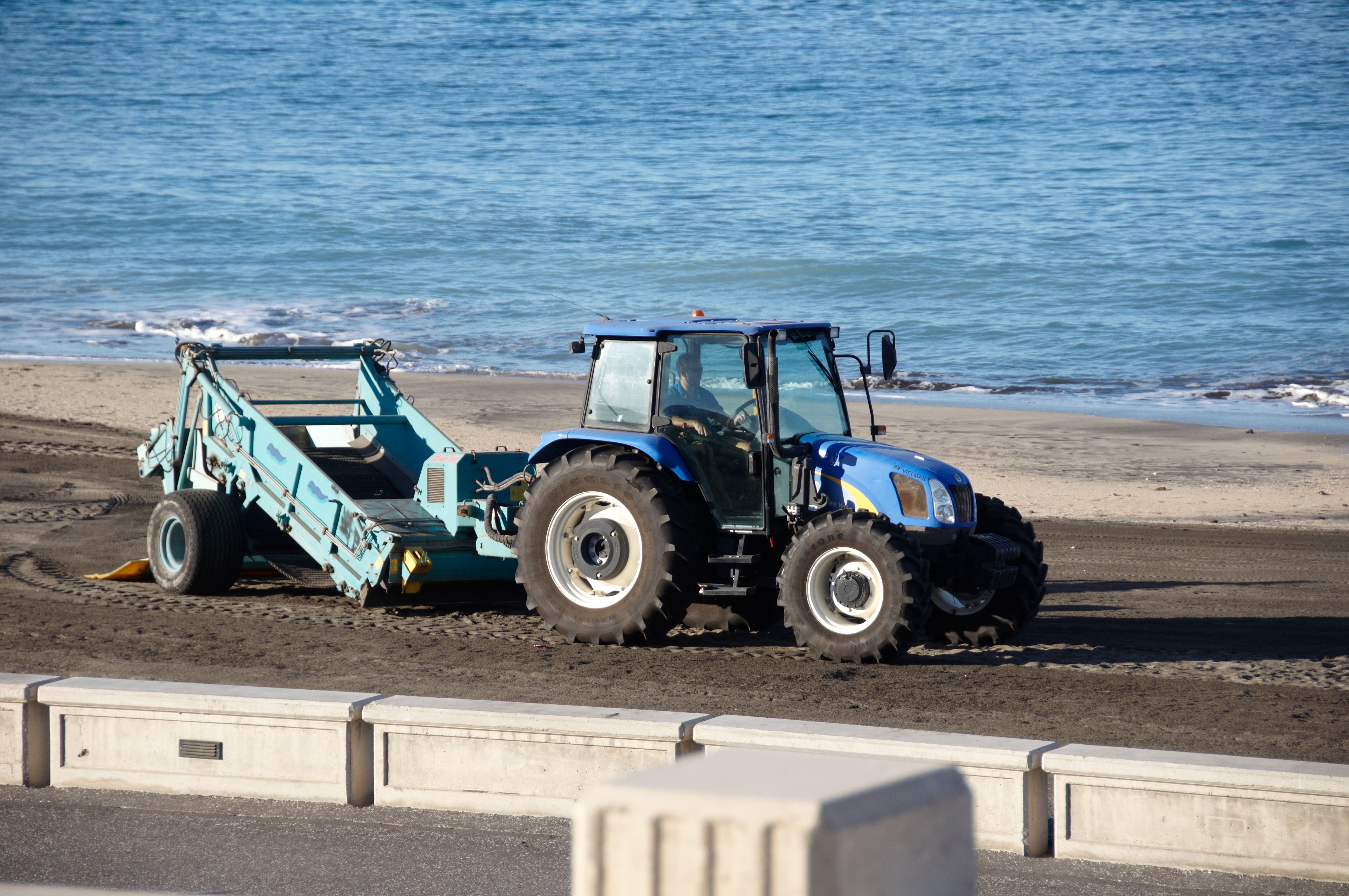 Equipment to clean the beach on Playa de Fañabé in Costa Adeje, Tenerife